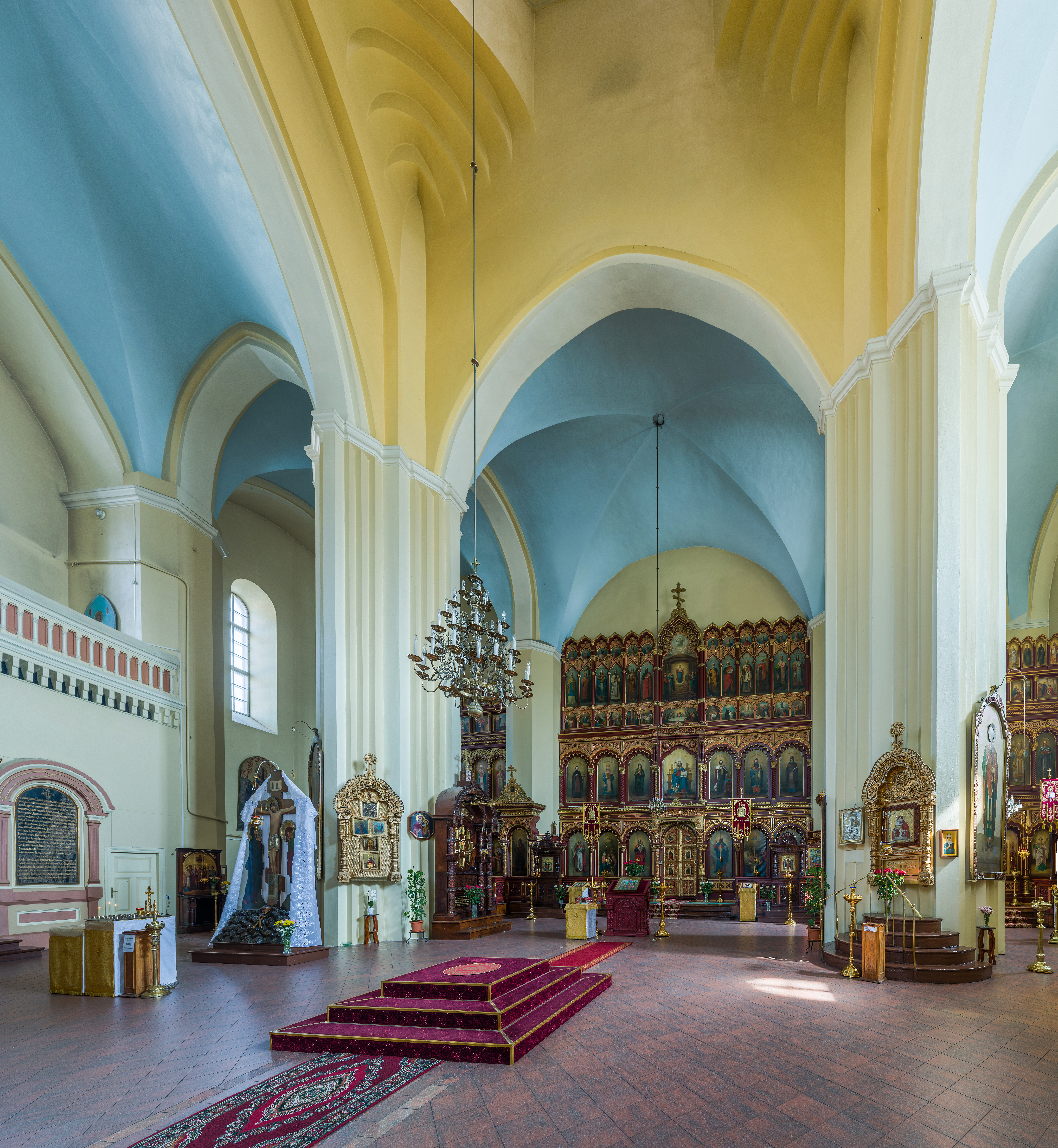 The interior of the Orthodox Cathedral of the Dormition of the Theotokos in Vilnius, Lithuania.